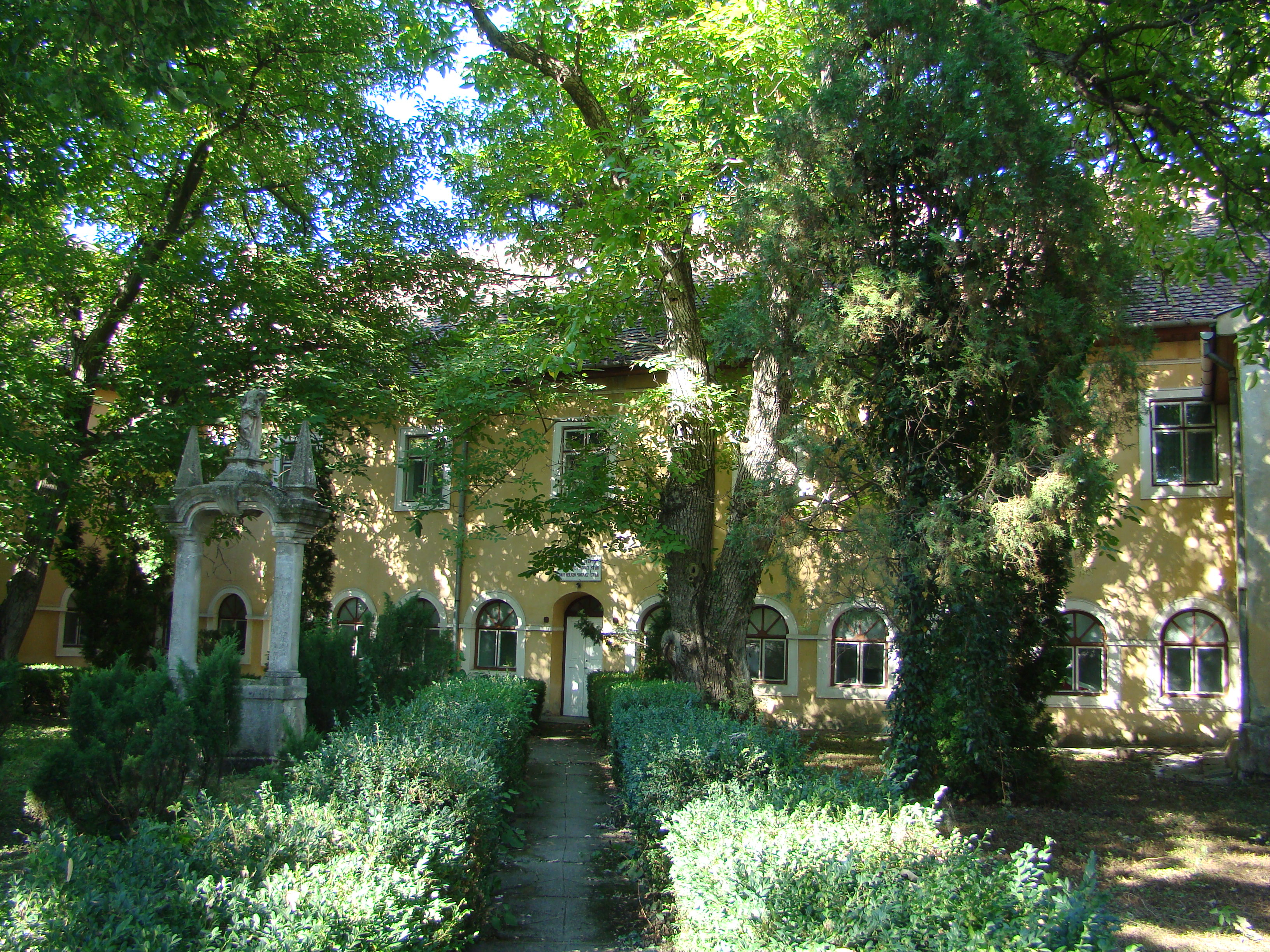 Franciscan monastery in Vințu de Jos, Alba county, Romania